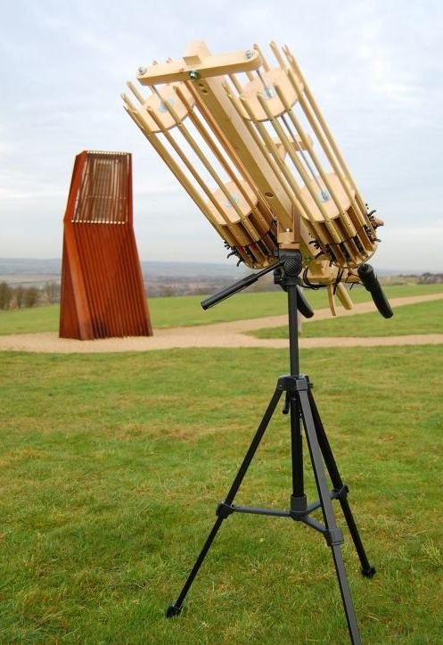 The DISINTEGRATOR motorised cordless double rubber band minigun, atop Dunstable Downs, UK, November 2007